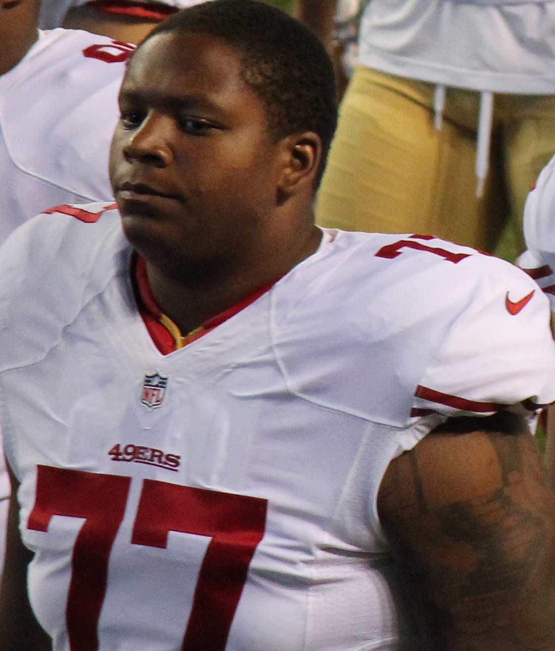 Trenton Brown, a player on the National Football League.